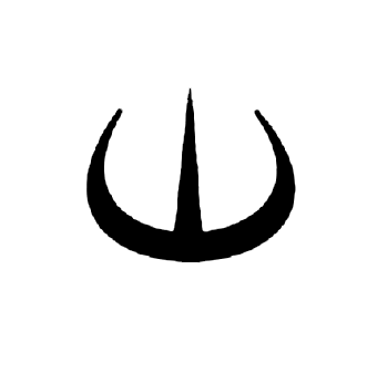 Tamgha of Hulagu Khan. Derived from book Badarch Nyamaa - The coins of Mongol Empire and clan of tamgha of khans